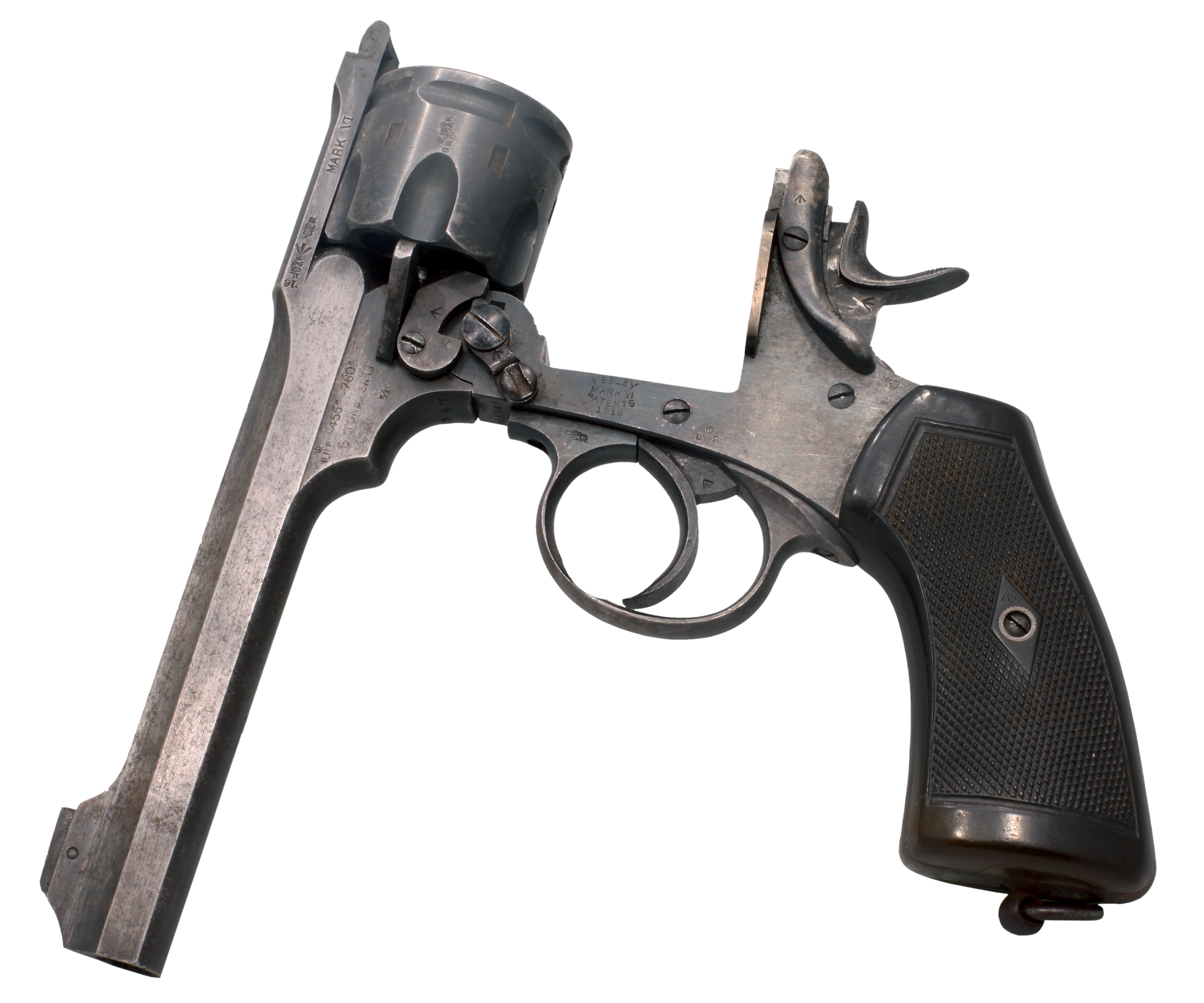 Webley & Scott Mk VI. Caliber .455 Collection Paul Regnier, Lausanne, Switzerland }